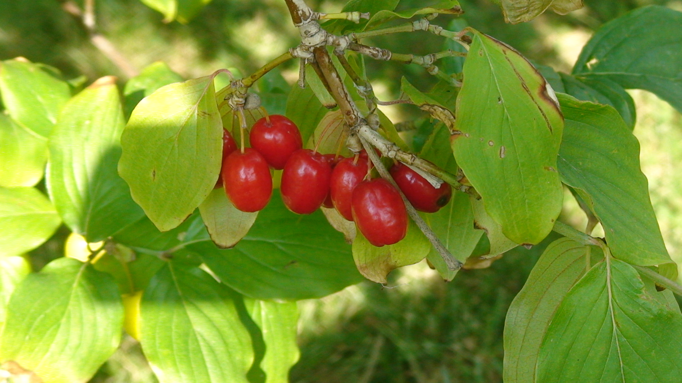 Cornelian Cherry